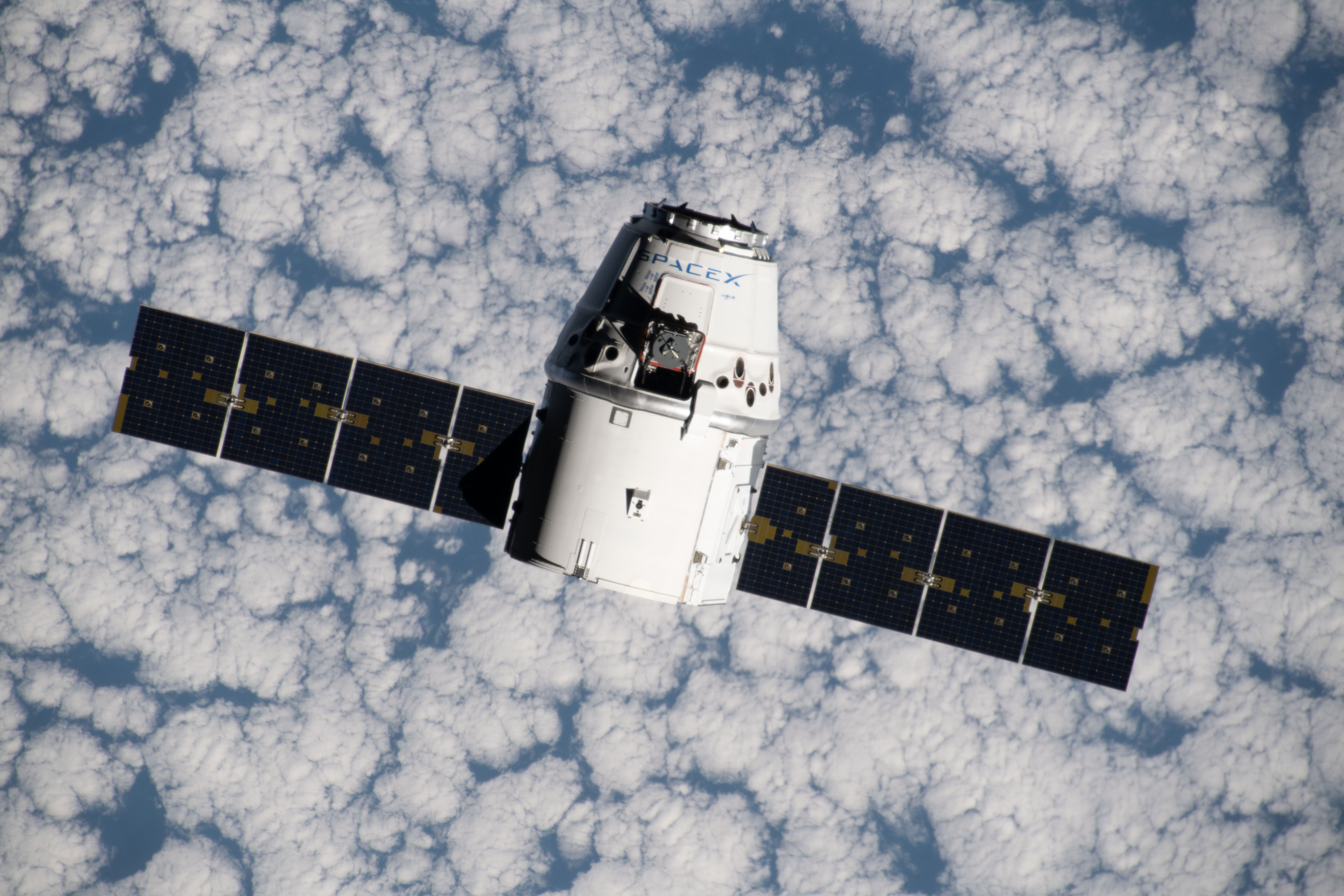 The SpaceX Dragon space freighter approaches the International Space Station as both spacecraft were orbiting 265 miles above the Atlantic Ocean off the west coast of Namibia.